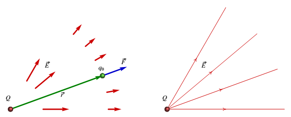 Campo elétrico produzido por uma carga pontual positiva Q e representação do campo usando linhas de campo.